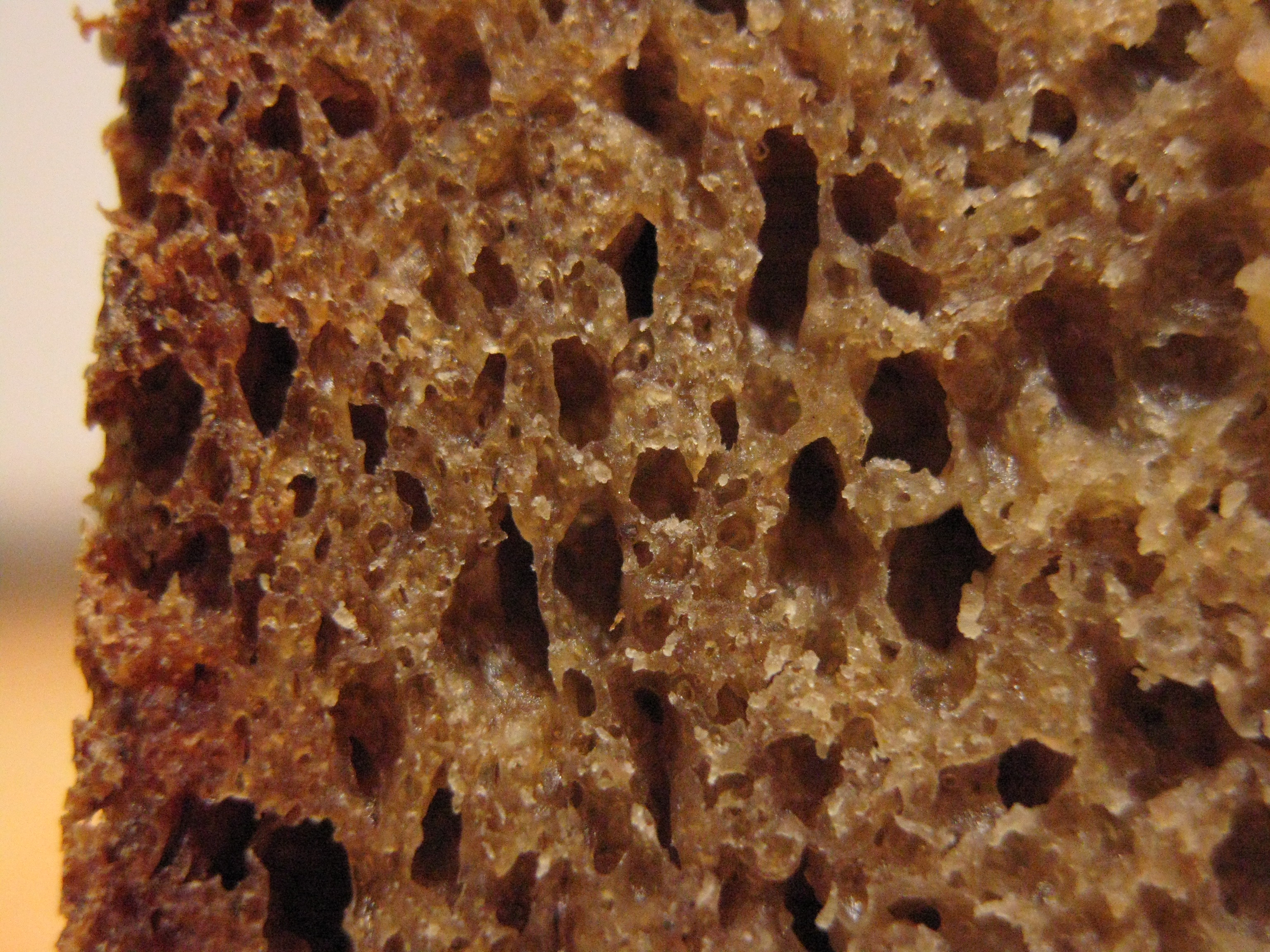 Bread.